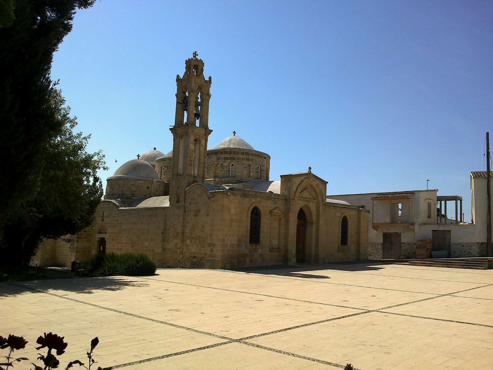 Chypre Peristerona Saints Barnabe Hilarion 16062014